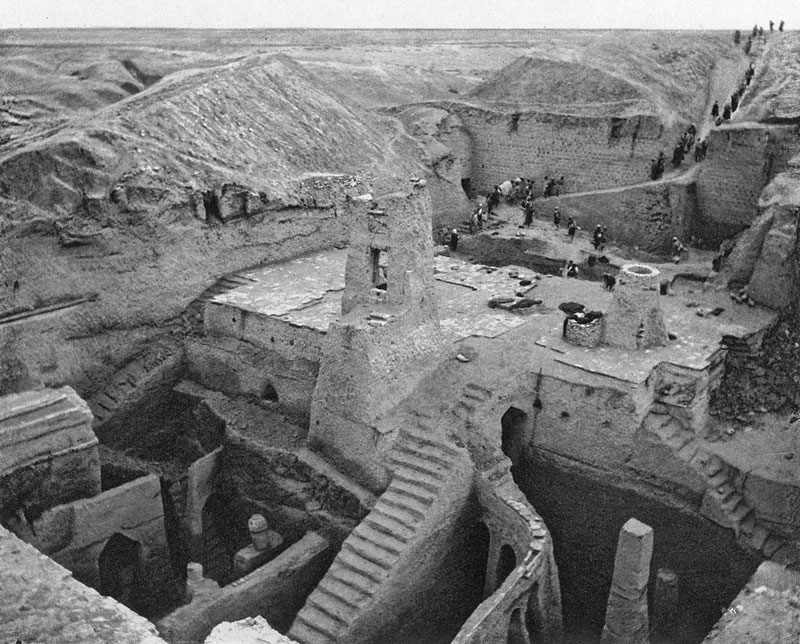 The Nippur temple excavation photographed by John Henry Haynes in 1893. (Courtesy University of Pennsylvania Museum of Archaeology and Anthropology)